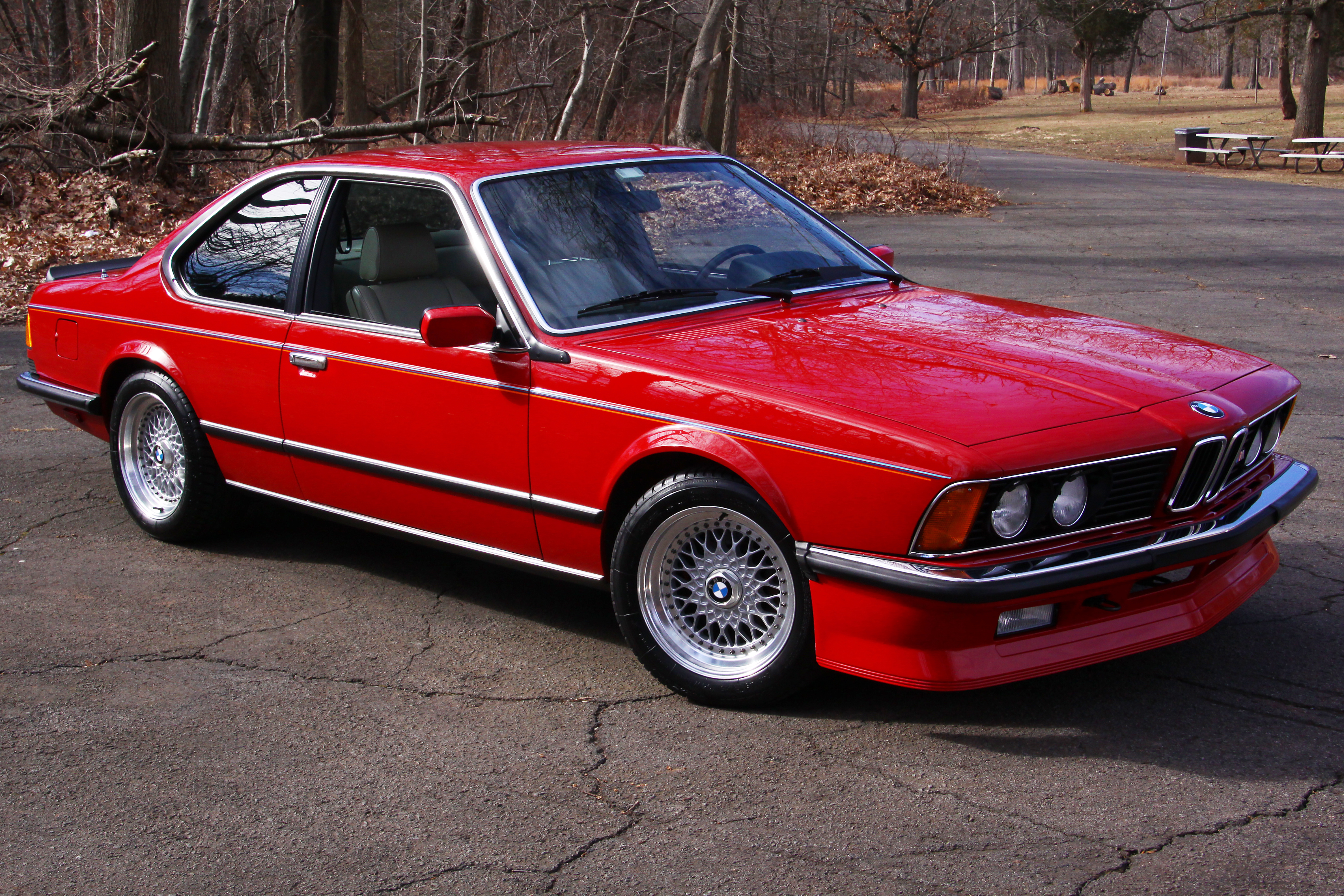 1985 BMW M635CSi. Stock BBS RS007 wheels and Michelin TRX tires.